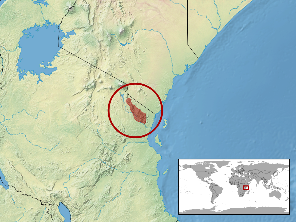 geographic distribution of Lygodactylus gravis (Native: Tanzania, United Republic of)